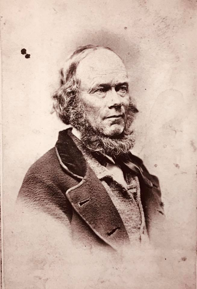 Carte de visite image of Jonathan Browning taken in Salt Lake City, Utah Territory, 1865